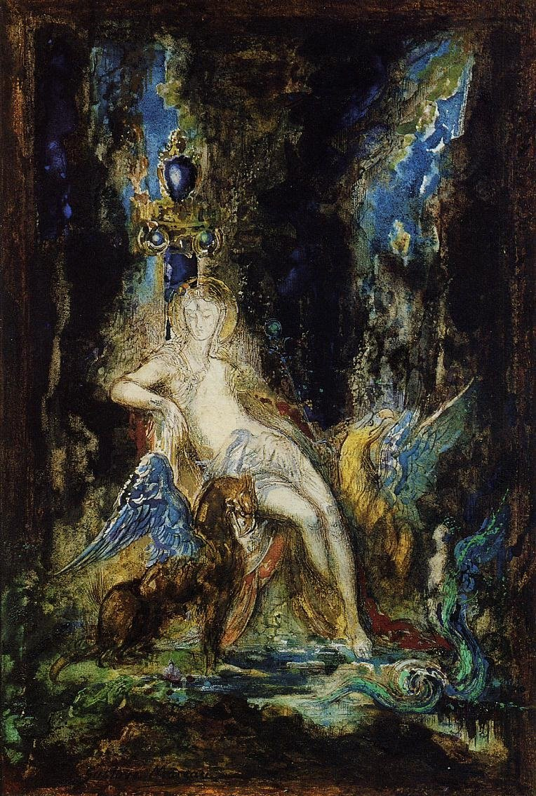 Painting movement Symbolism picturing a Deva and gryphon, a mythological creature having the head and wings of an eagle and the body of a lion.